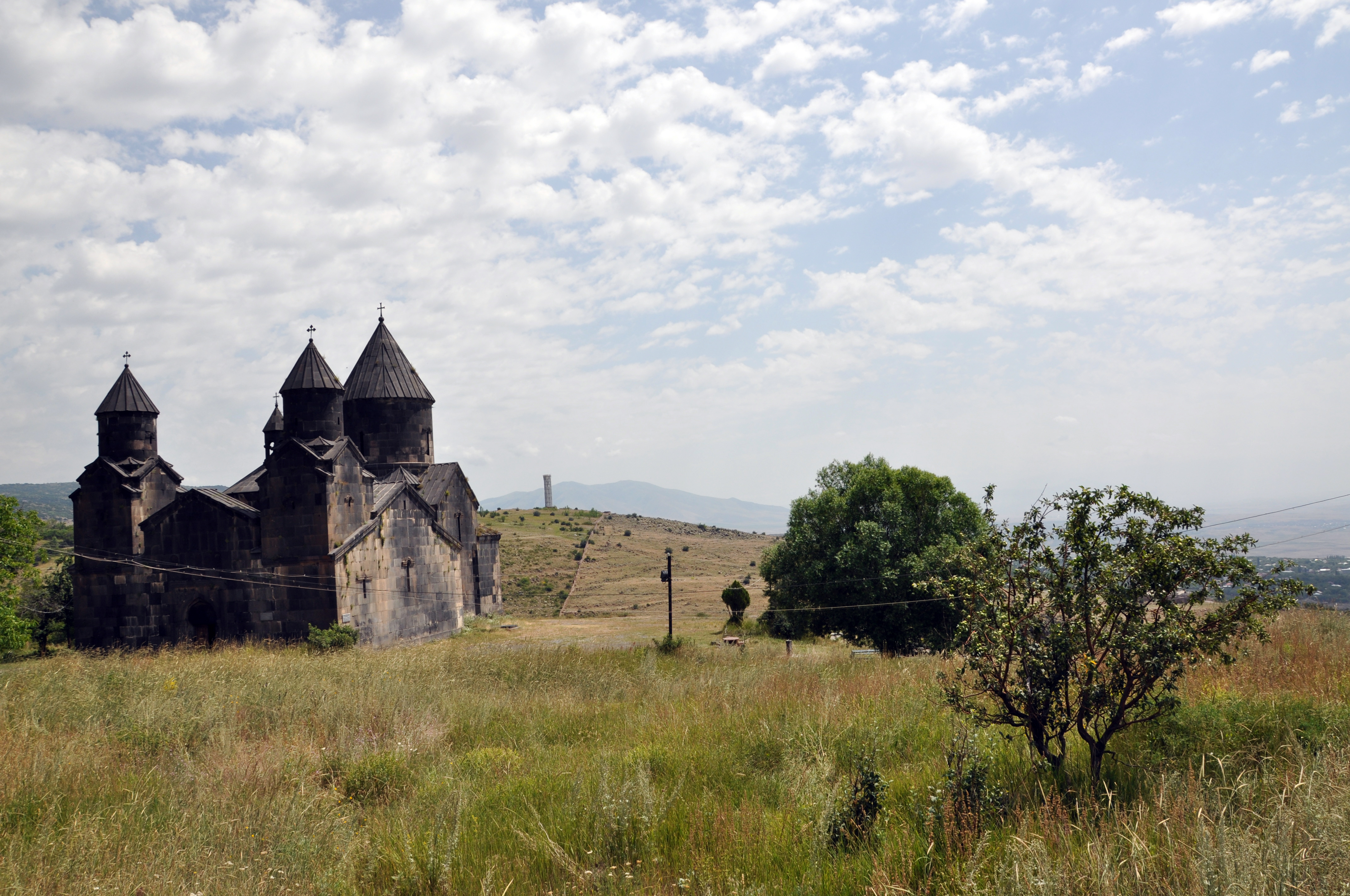 SW view of Tegher monastery, Armenia.